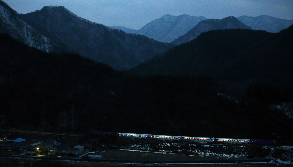 A-Train (Korail), Jeongseon Arirang Train, 정선아리랑열차, en route, January 15, 2015, Jeongseon-gum, Gangwon-do, South Korea.